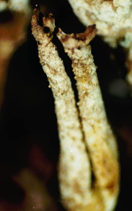 Cladonia farinacea (Vain.) A. Evans, 1950 Photograph of a herbarium specimen taken through a dissecting microscope (x20) showing the sorediate upper portion of a branched podetium. C. farinacea was growing on soil in a cemetery in Steuben, Washington County, Maine, USA (Lat. 44o31' N, Long. 67o58' W). Collected by E.C. Uebel, identified by Dr. David H.S. Richardson (No. U-193, 15 Jun 2001).